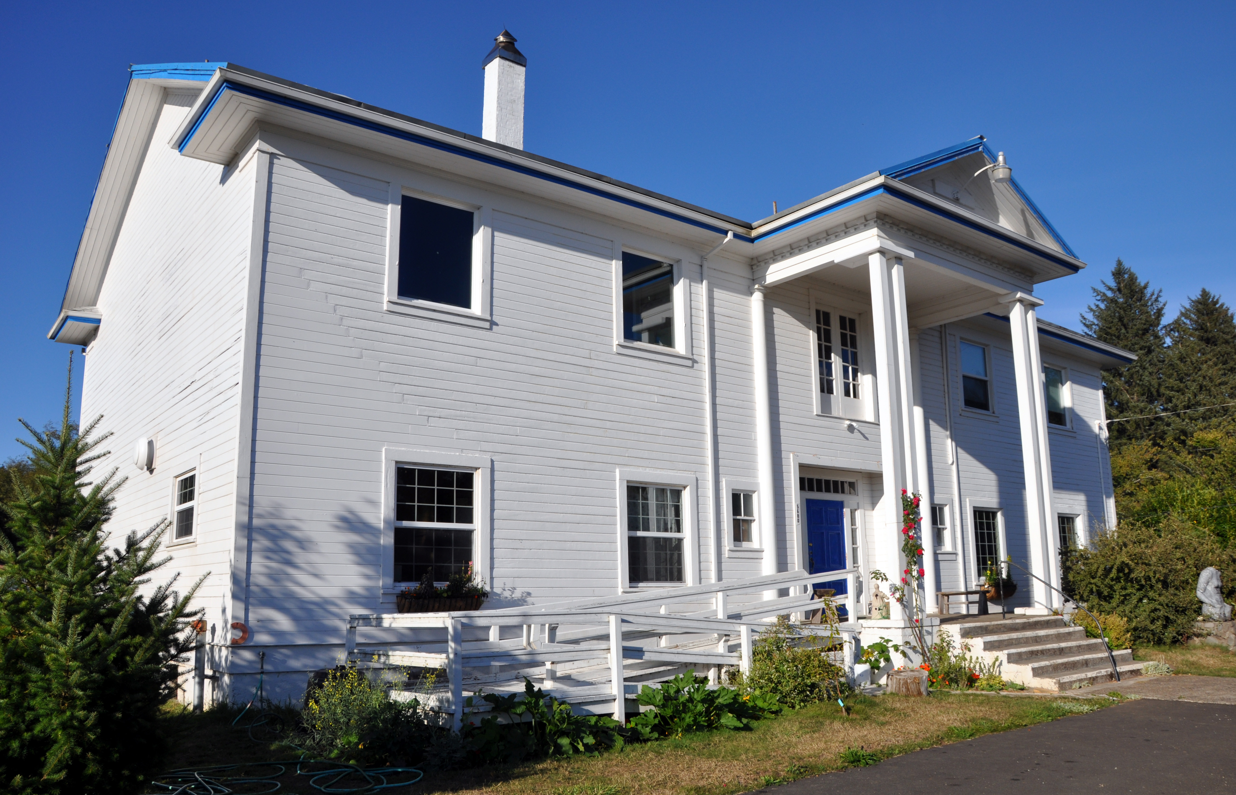 Bay City Arts Center in Bay City, Oregon, United States. Looking northwest from A Street.